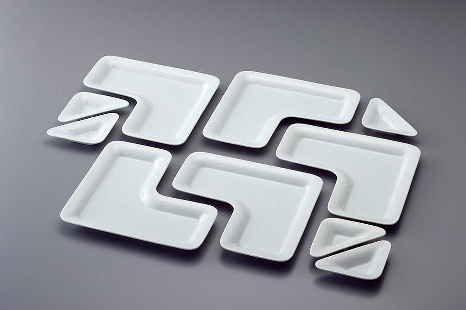 Ripples L-type Party Tray (1983), Masahiro Mori (ceramic designer) designed